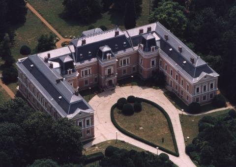 Lengyel, Hungary, aerialphotography (Apponyi Mansion) This is a photo of a monument in Hungary, Identifier: 8662